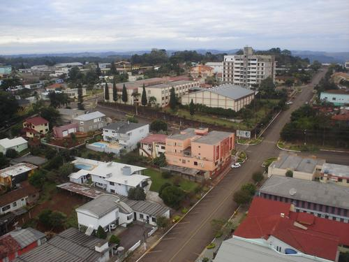 São Miguel do Oeste, Santa Catarina, Brazil